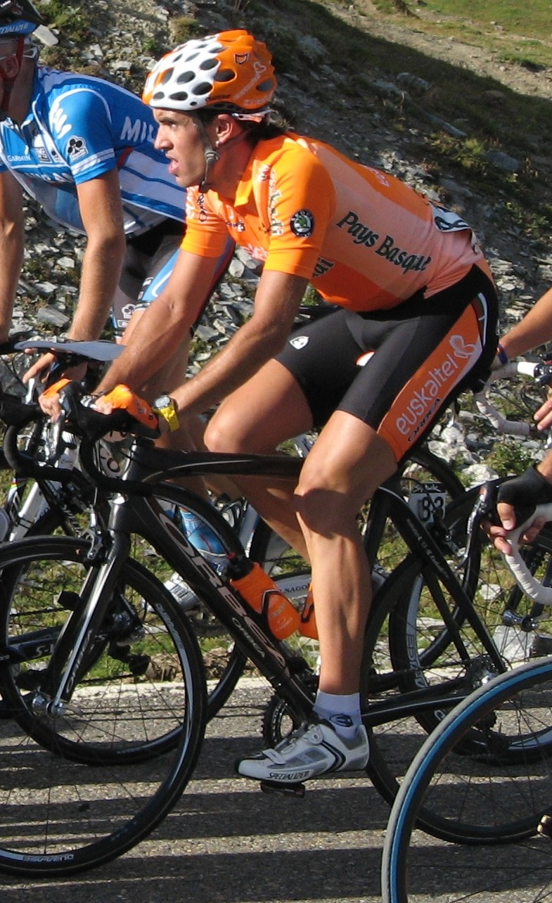 Koldo Fernández, 2008 Vuelta a España, 8th stage, Port de la Bonaigua, Spain.